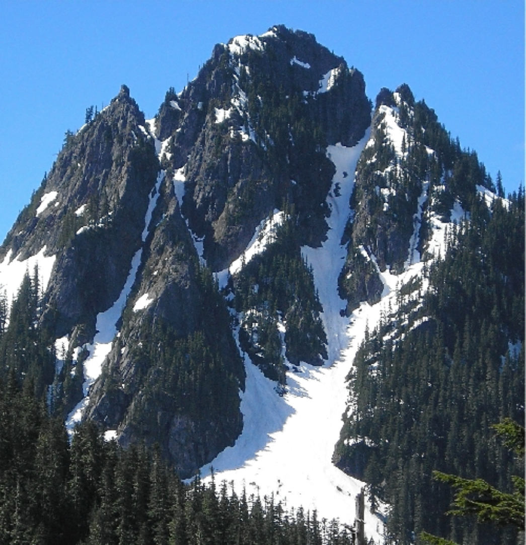 Lane Peak seen from Paradise Meadows. June 12, 2010.